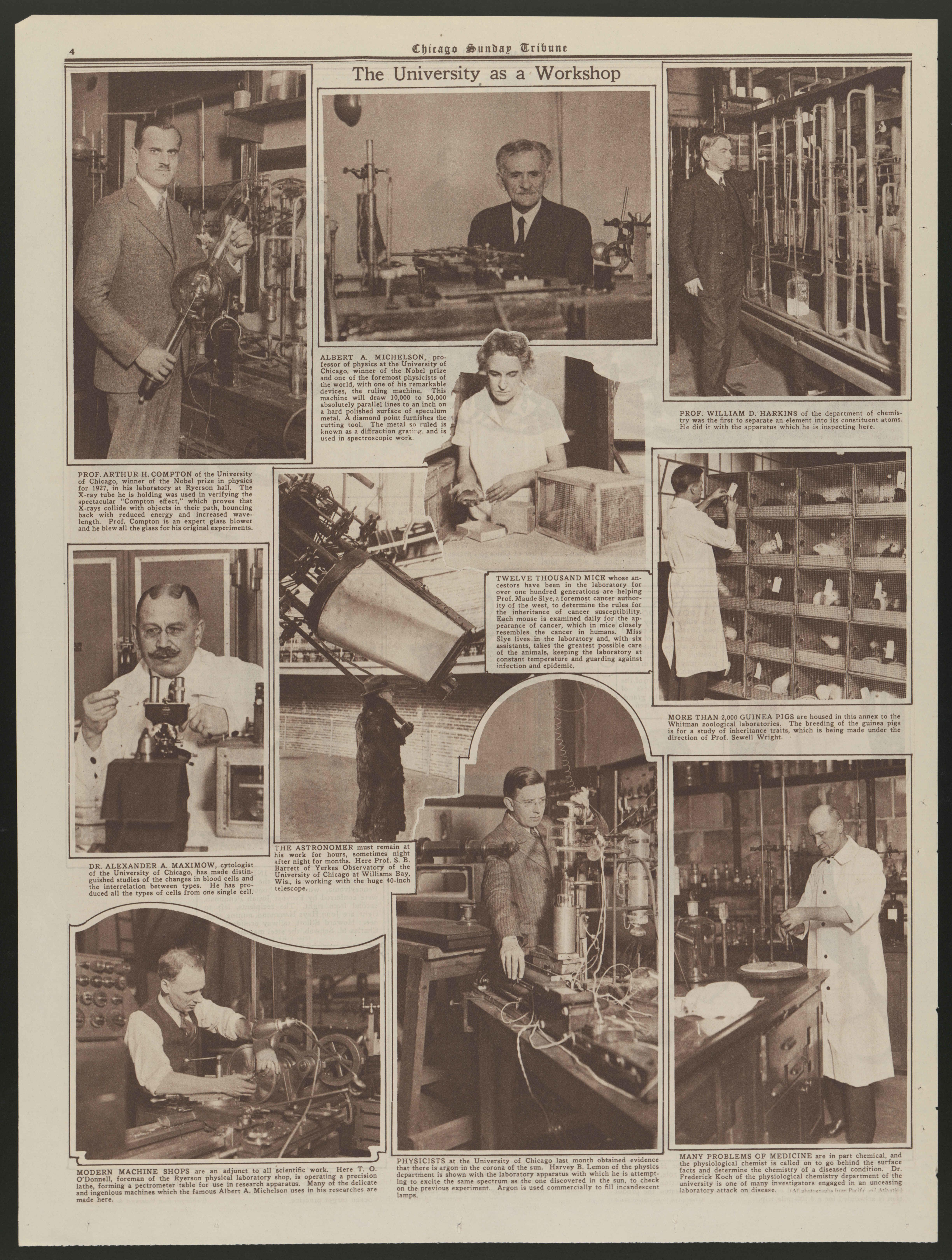 The university as a workshop. University of Chicago. Cytologist Dr. Alexander A. Maximow works in his laboratory.